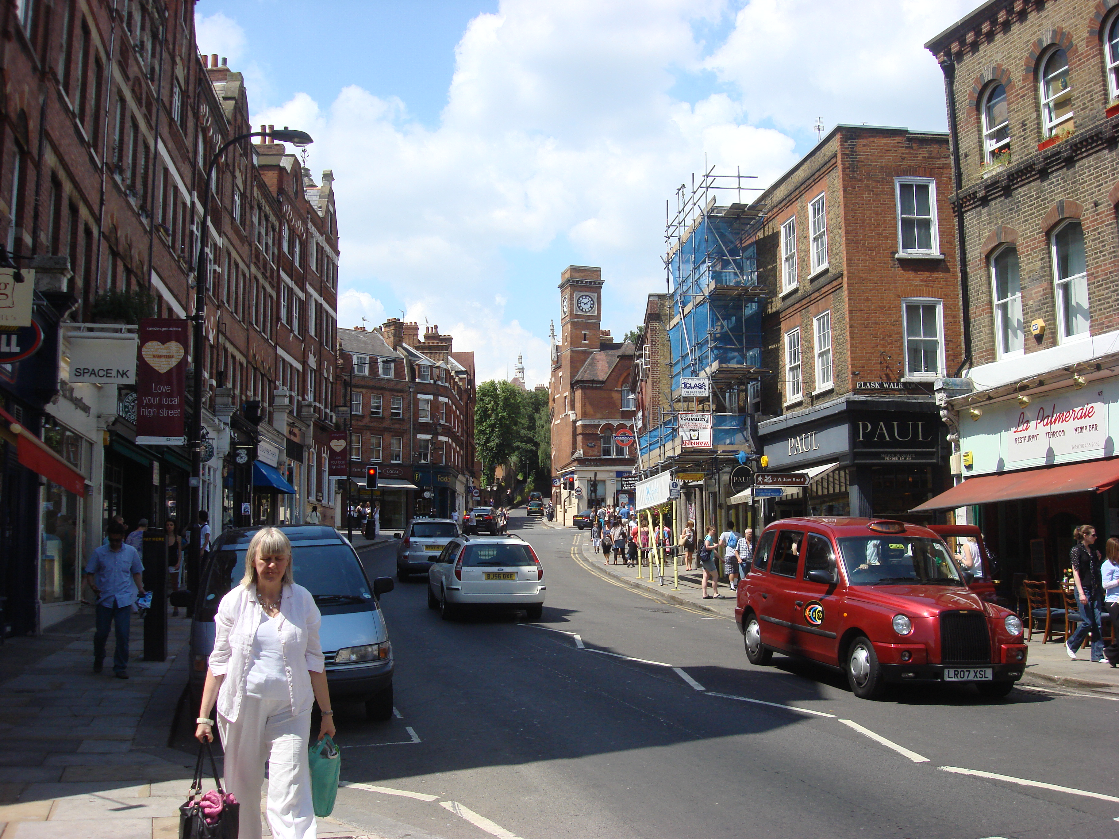 Hampstead